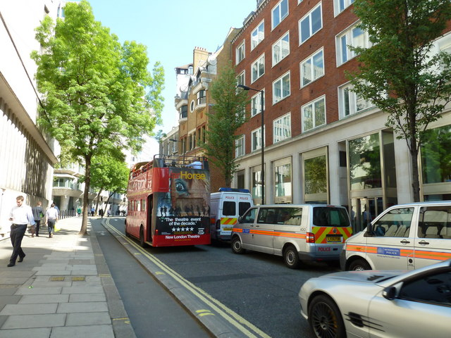 Premium Tours open top Routemaster bus RML2729 (reg. SMK 729F), pictured heading east along Petty France, City of Westminster, London. The police cars are parked outside Clive House (No. 70), part of the Ministry of Justice (not to be confused with their other building, 102 Petty France, further along the street visible behind the tree on the opposite side. The builing on the immediate left is Wellington Barracks.